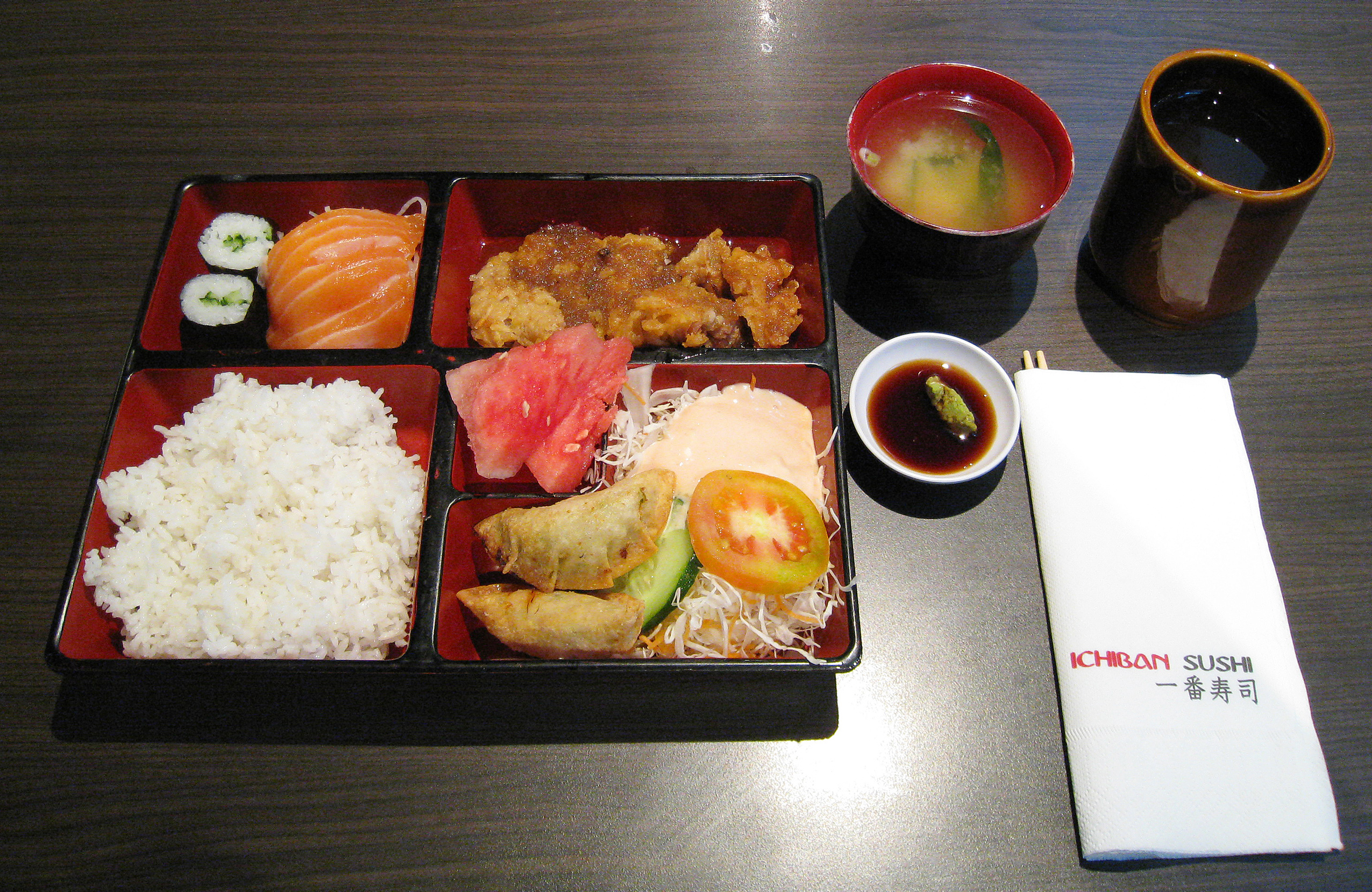 The Chicken Teriyaki Bento at Ichiban Sushi Restaurant, Jakarta, Indonesia. Consist of chicken teriyaki, rice, kyuri sushi, salmon sashimi, salad, gyoza, watermelon, miso soup, and green tea.